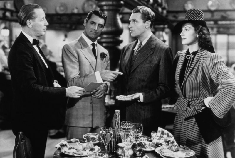 L. to R. : Irving Bacon, Cary Grant, Ralph Bellamy & Rosalind Russell in His Girl Friday - cropped screenshot. Rosalind Russell is wearing a costume designed by costume designer Robert Kalloch.